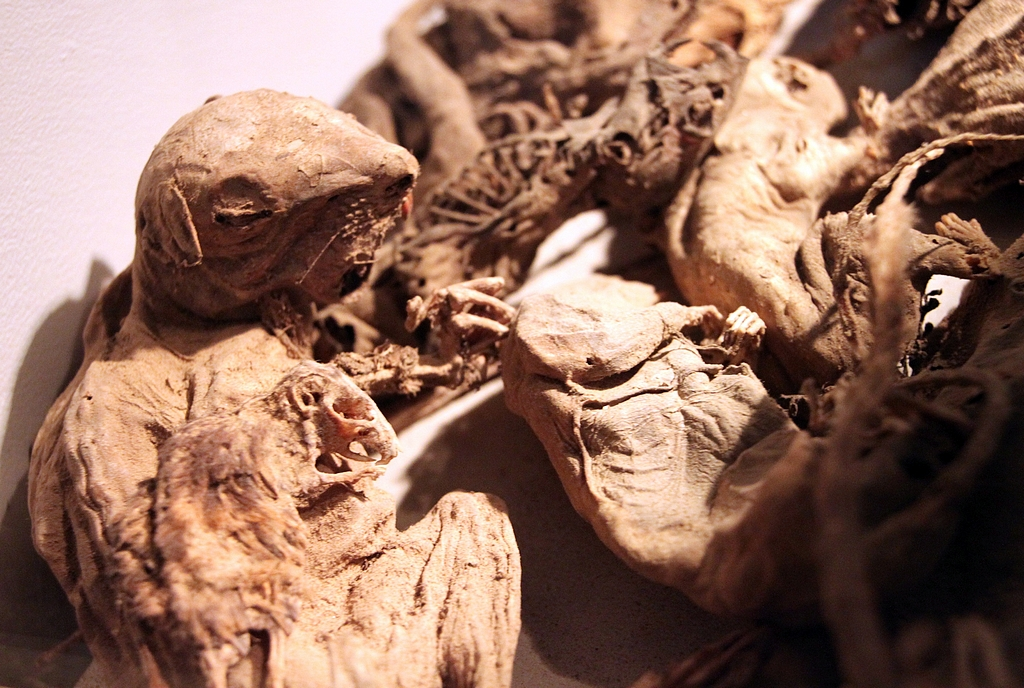 Rochlitz Castle, mummification rats.